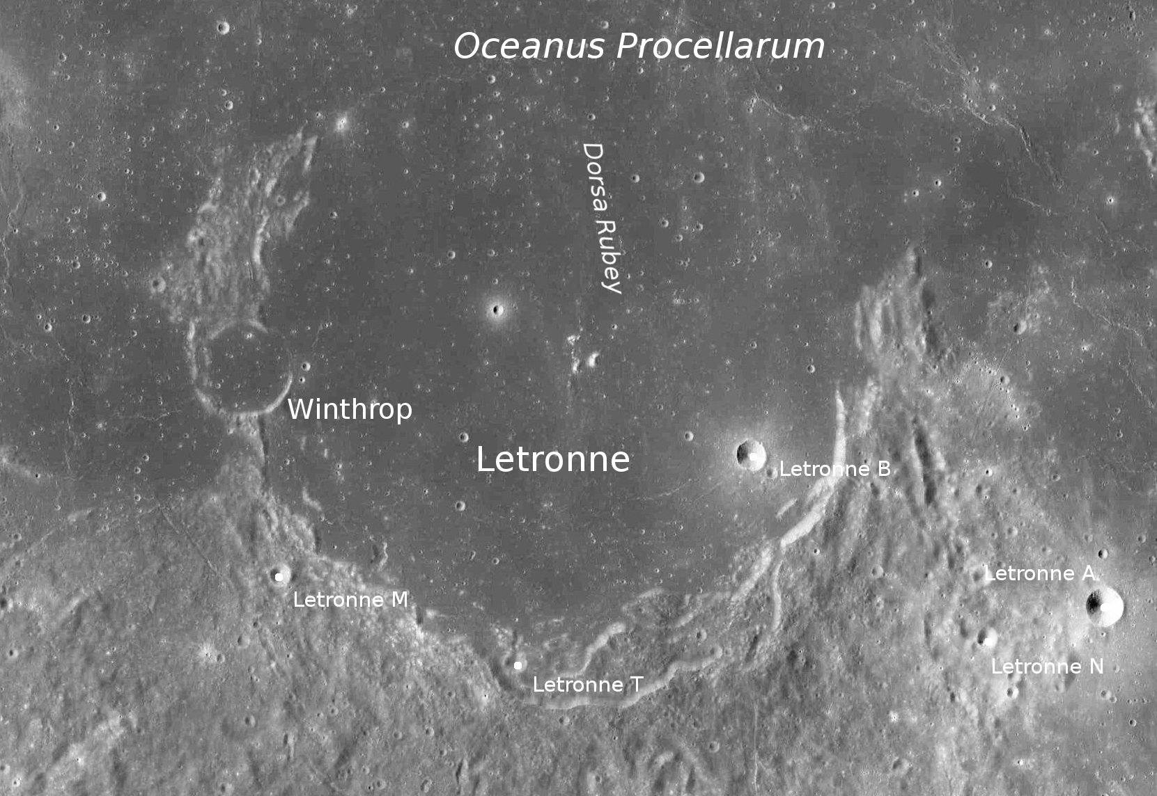 Craters Letronne and Winthrop (detail of LRO - WAC global moon mosaic; Mercator projection)